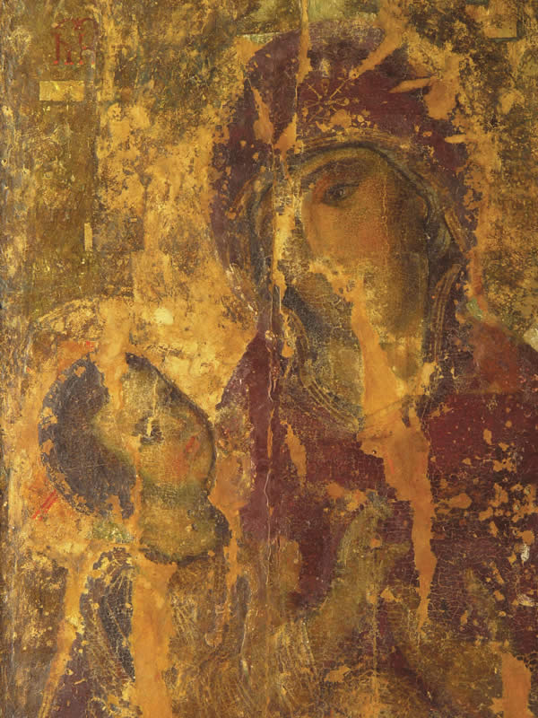 Kholmska Bohorodytsya, the Icon of the Mother of God of Kholm (now Chełm, Poland).